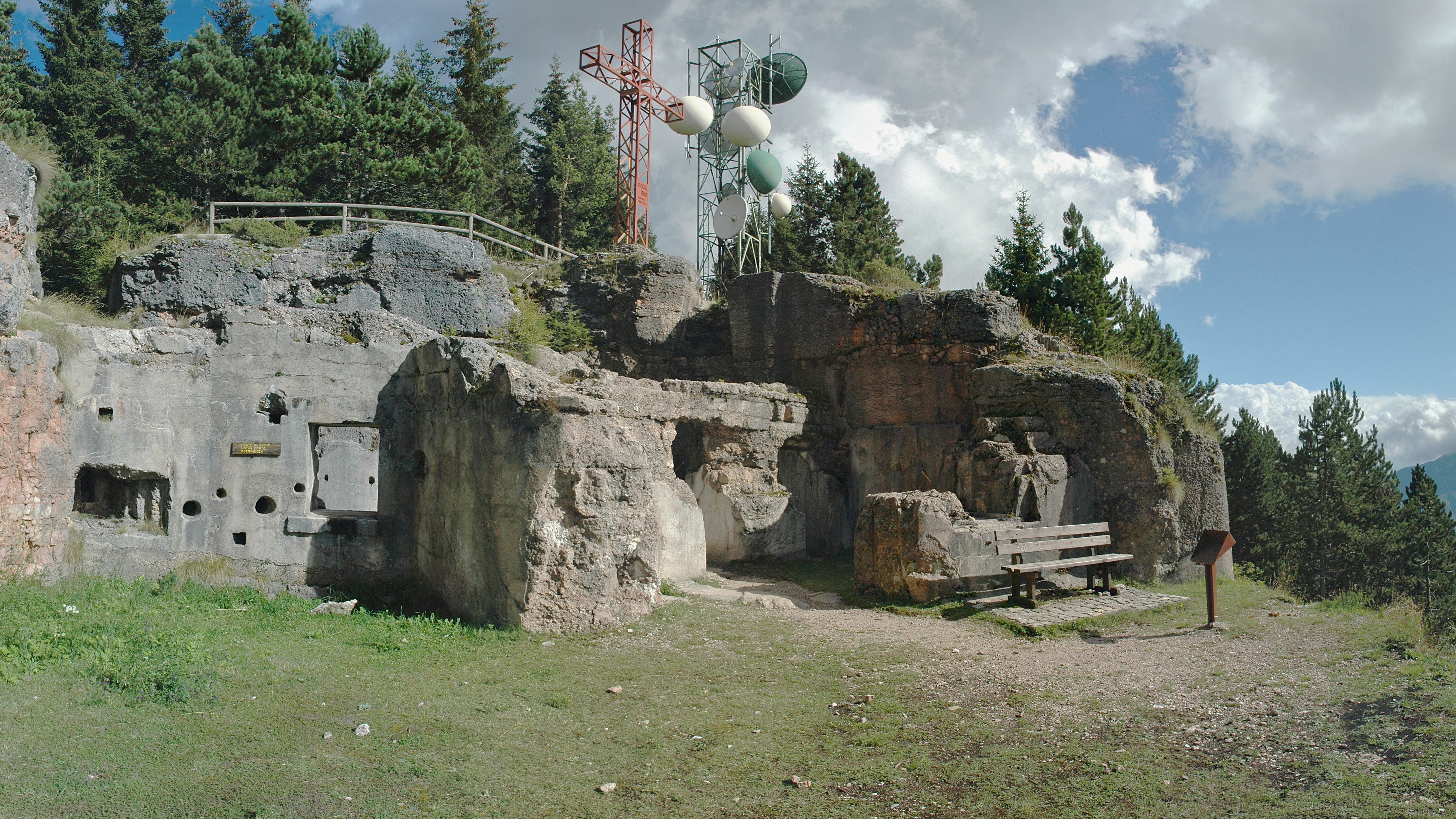 "Battery Oberwiesen" is an outer fortification of Fort Luserna in the Altipiani of Folgaría, Lavarone and Luserna south east of Trento in Italy.